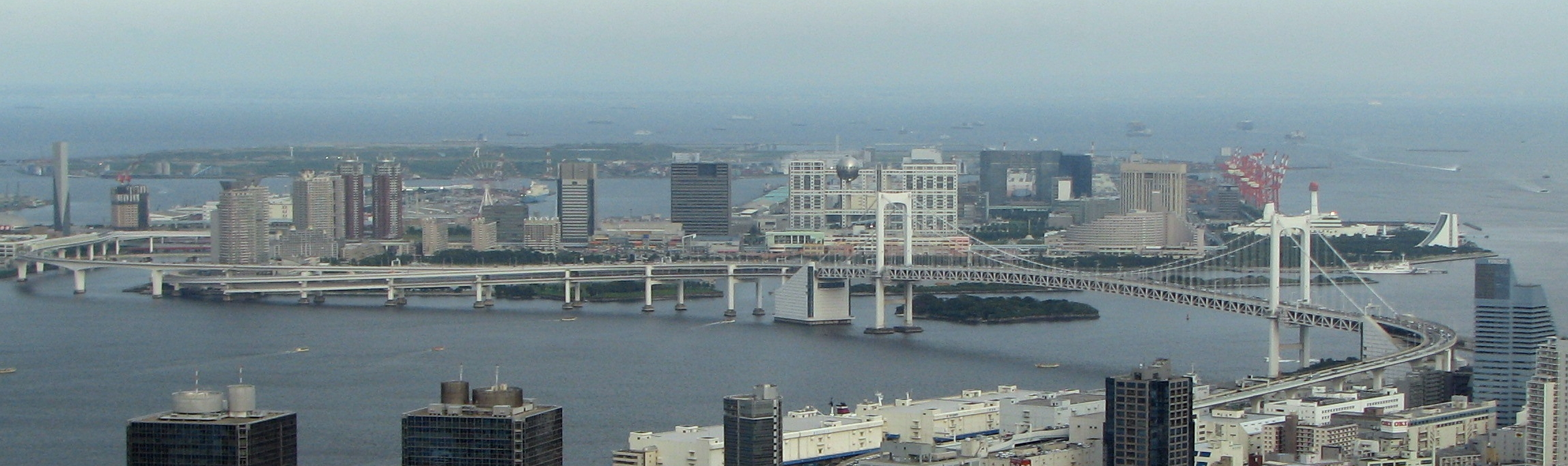 Odaiba from Tokyo Tower, with Rainbow Bridge at right/in front of the island. The Fuji TV complex with its globe is right in the middle of the island.